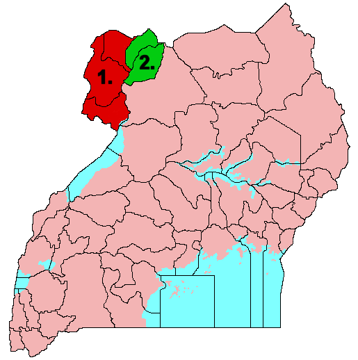 Ugandan sub-region of West Nile 1960's-1970's 1.+ 2. - original West Nile district until 1950's 1. - West Nile district 1960's-1970's 2. - Madi district (latter Moyo district) since 1960's Created by editing picture